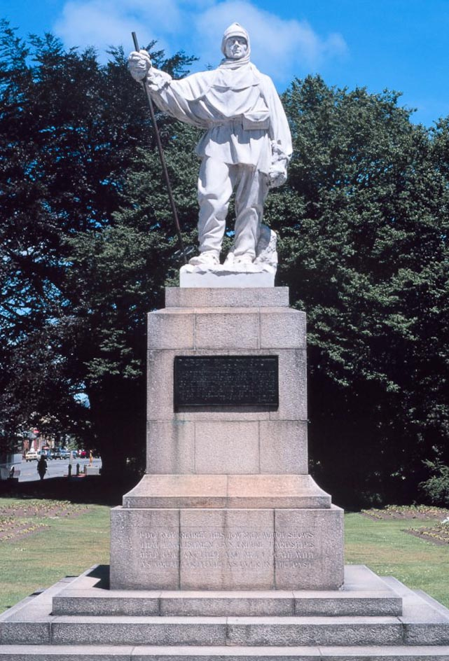 Statue of Robert Falcon Scott along the Avon River in Christchurch, New Zealand. Image ID: corp2587, NOAA Corps Collection Location: New Zealand Photo Date: 1997 February Photographer: Michael Van Woert, NOAA NESDIS, ORA